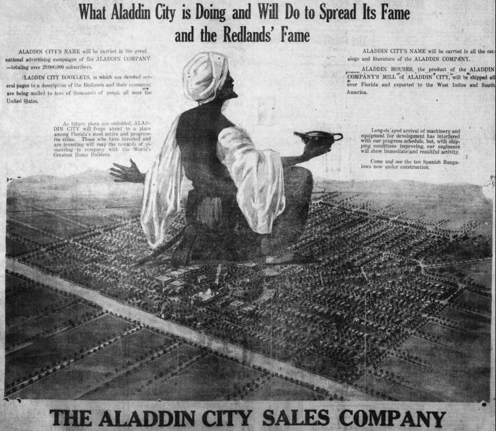 Advertisement for houses in the planned community of Aladdin City, Florida